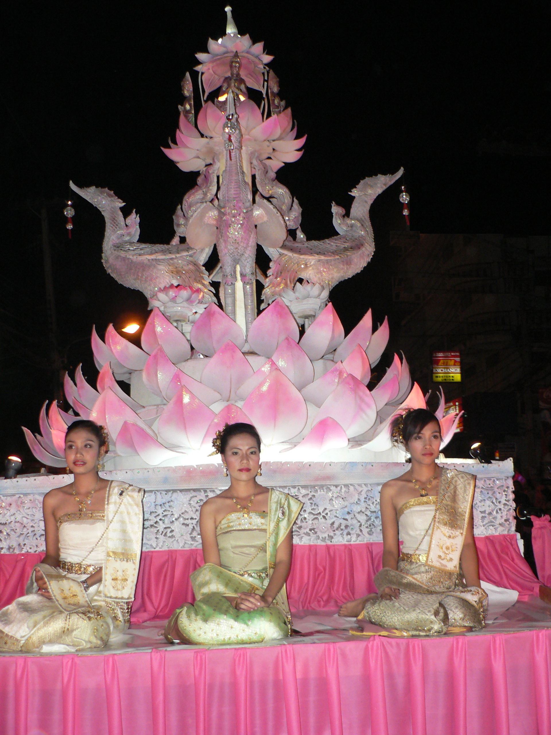 Loi Krathong, Chiang Mai 2005